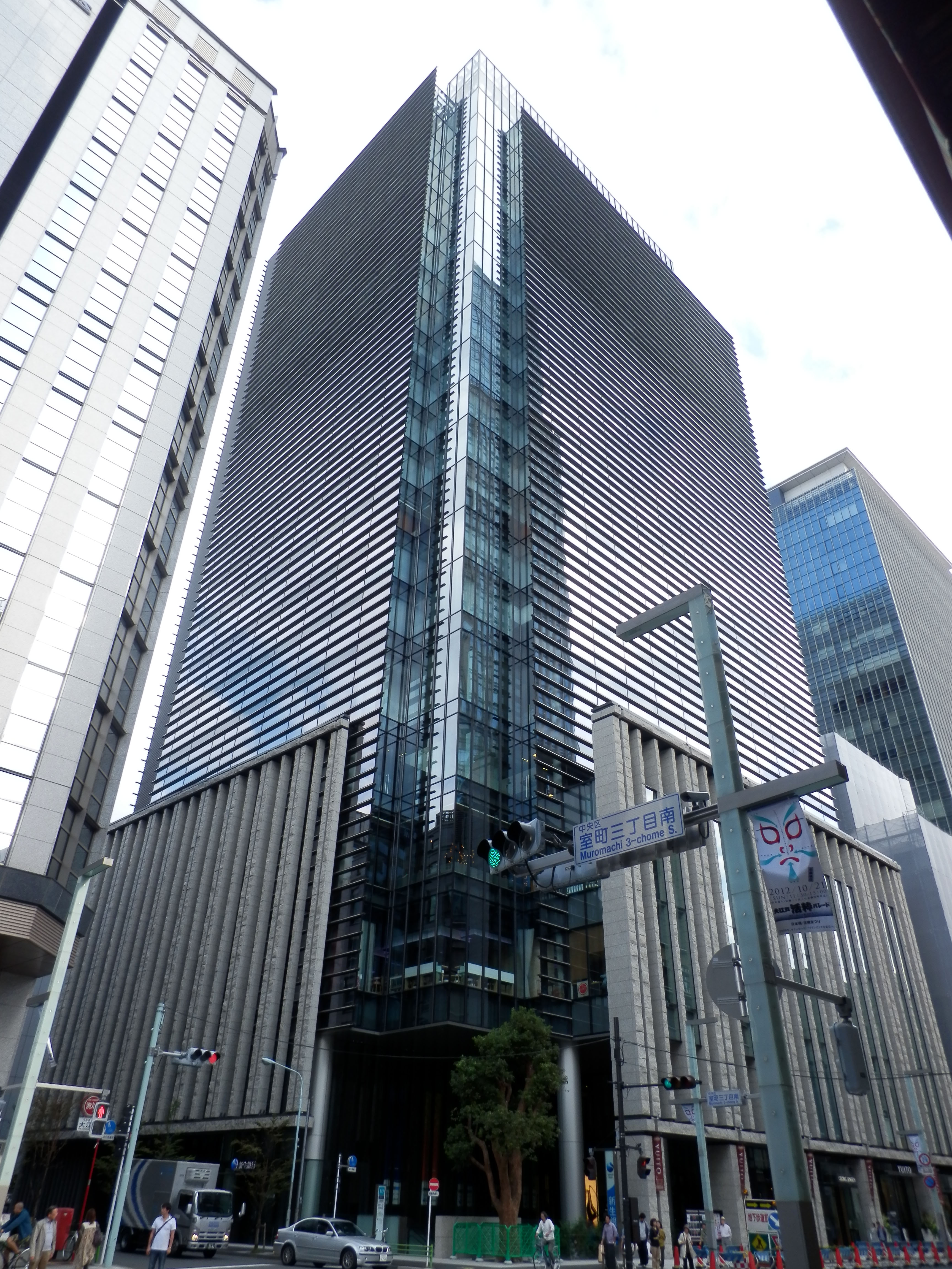 Nihonbashi Muromachi Nomura Building (Office building in Tokyo, Japan)